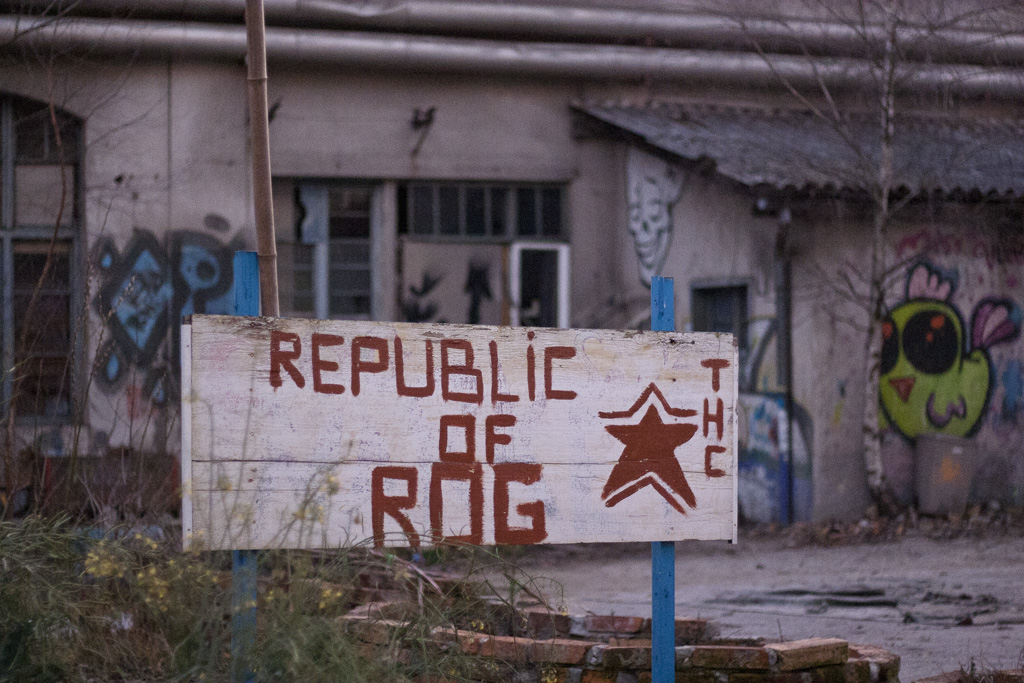 Old Rog bike factory